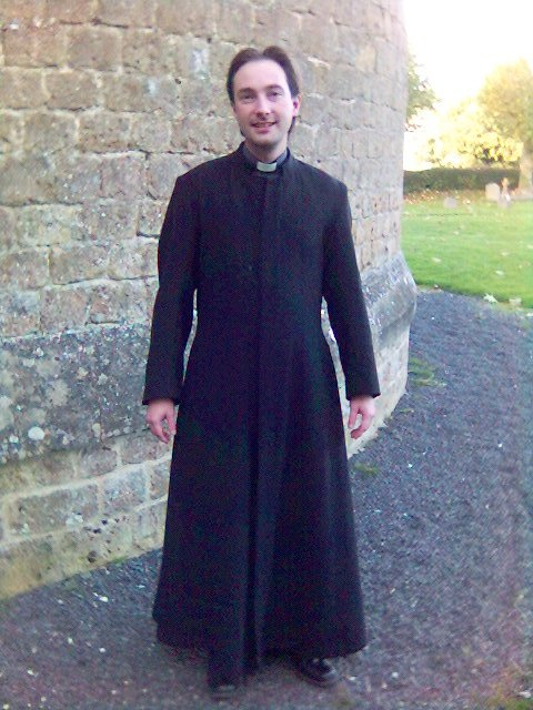 Anglican priest in single-breasted cassock